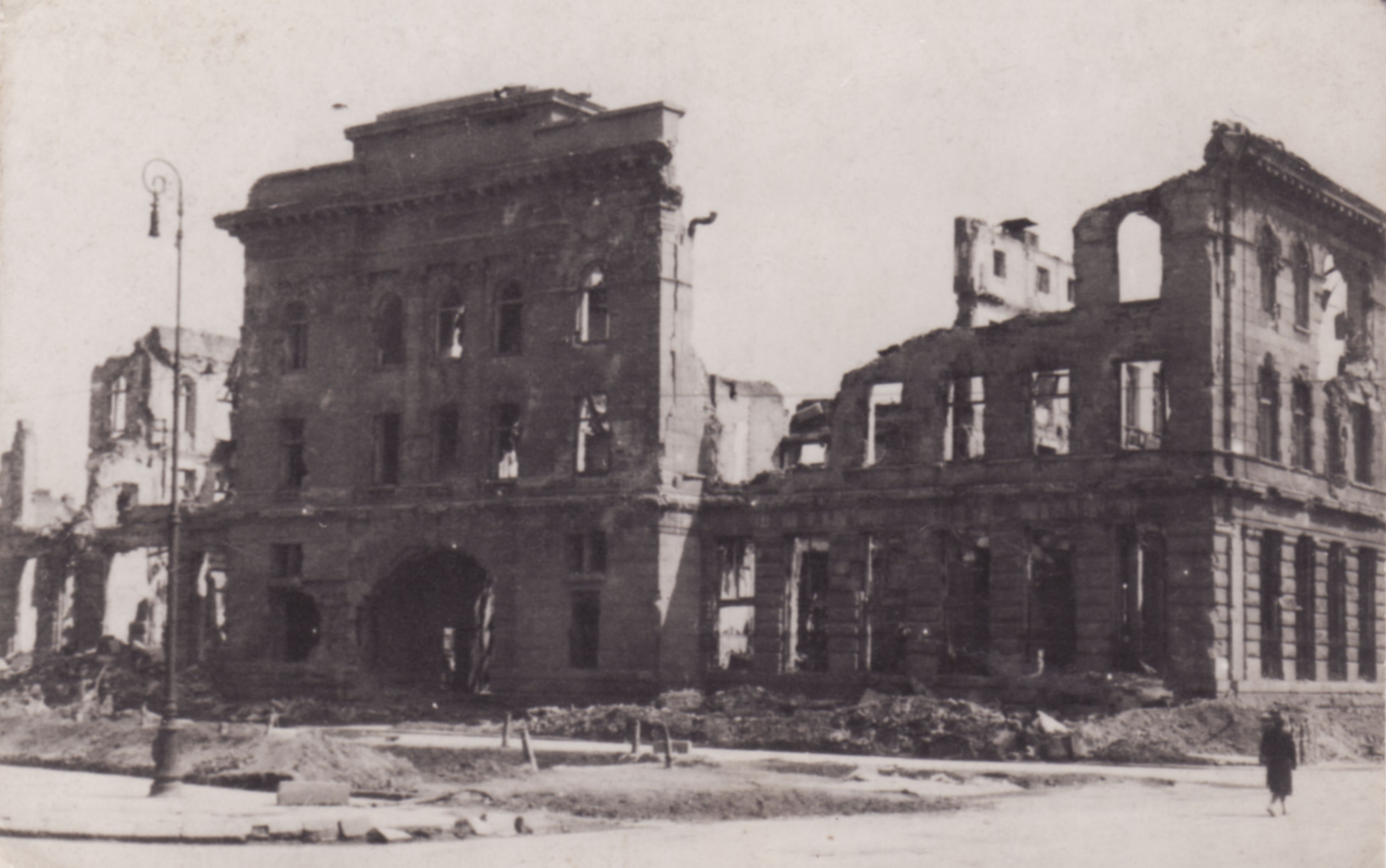 Main Post Office building by Napoleon Square